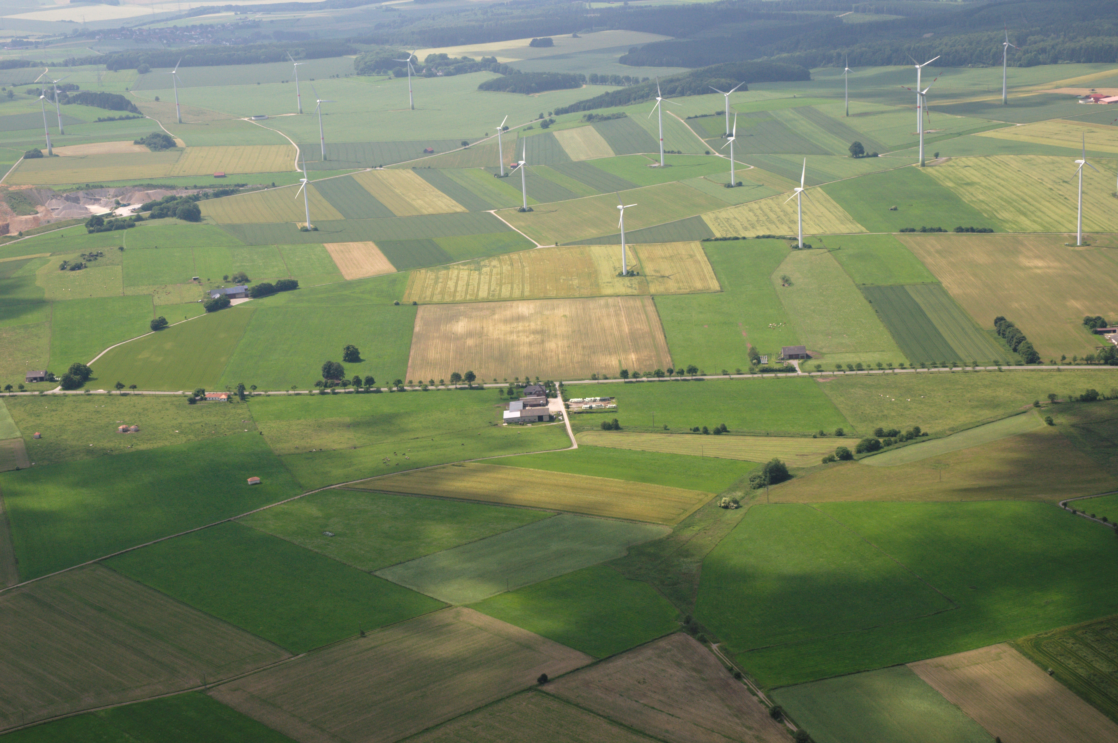 Fotoflug Sauerland-Ost: Landesstraße 956, Bürgerwindpark Madfeld-Bleiwäsche (links Windpark Radlinghausen und Kalksteinbruch an der Almer Straße) The making of this document was supported by the Community-Budget of Wikimedia Germany.